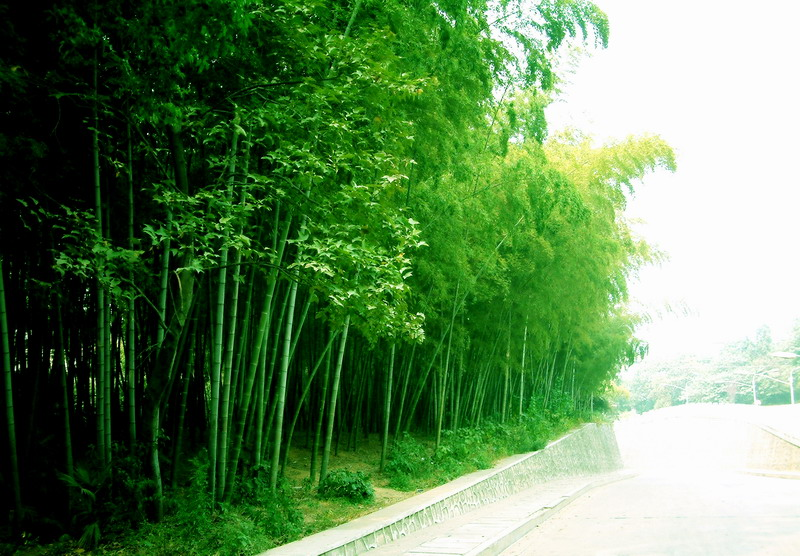 One of the famous scenic spots of the Huazhong Agricultural University Campus, "Bamboo rustling in the clear breeze"